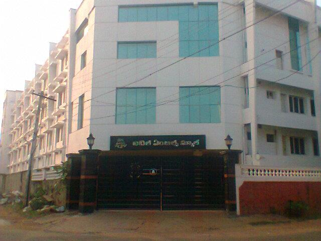 Little Angels